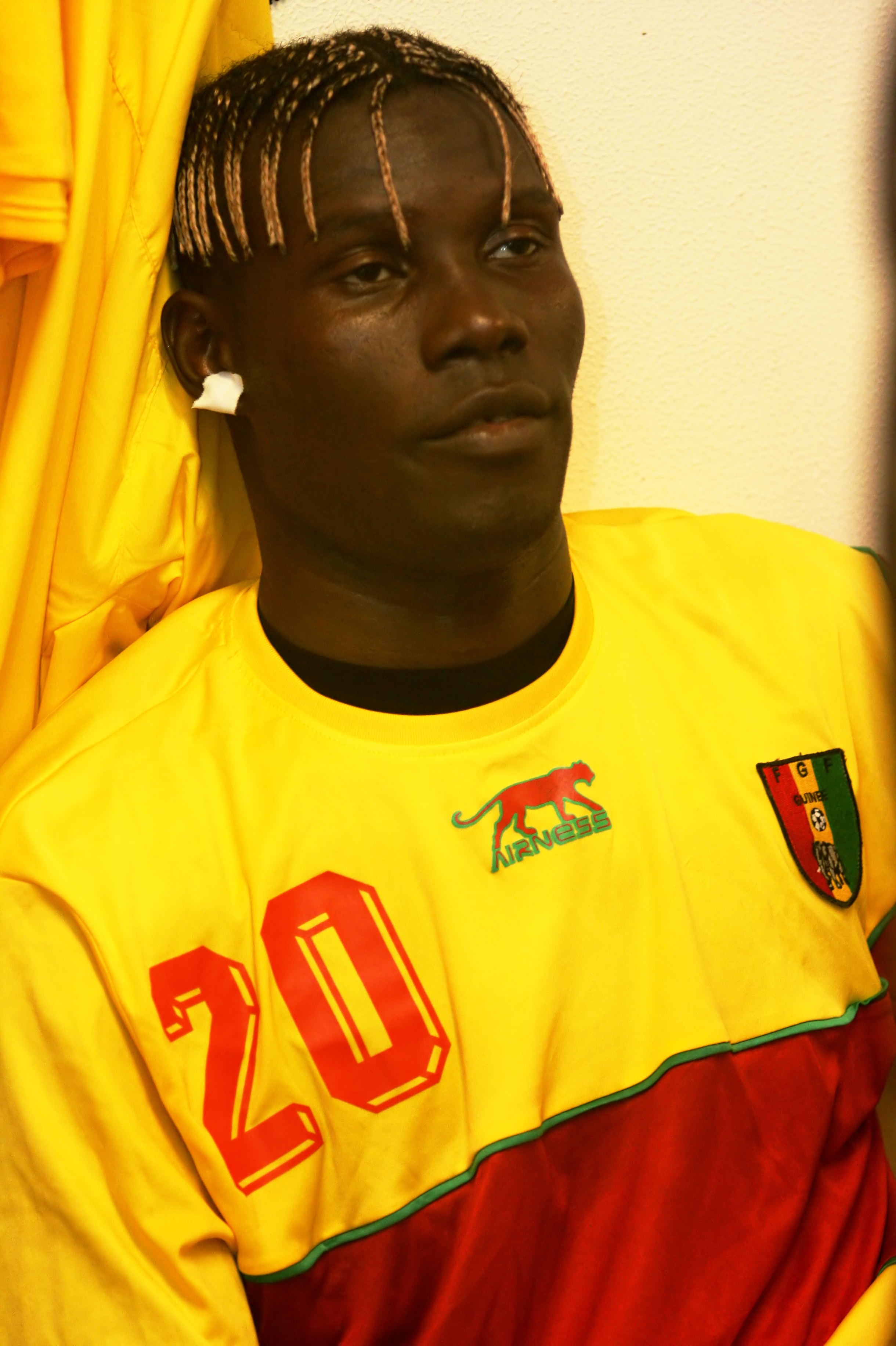 Fodé Mansaré, Guinean football player, after Guinean national team friendly match against the Stade Rennais youth team.